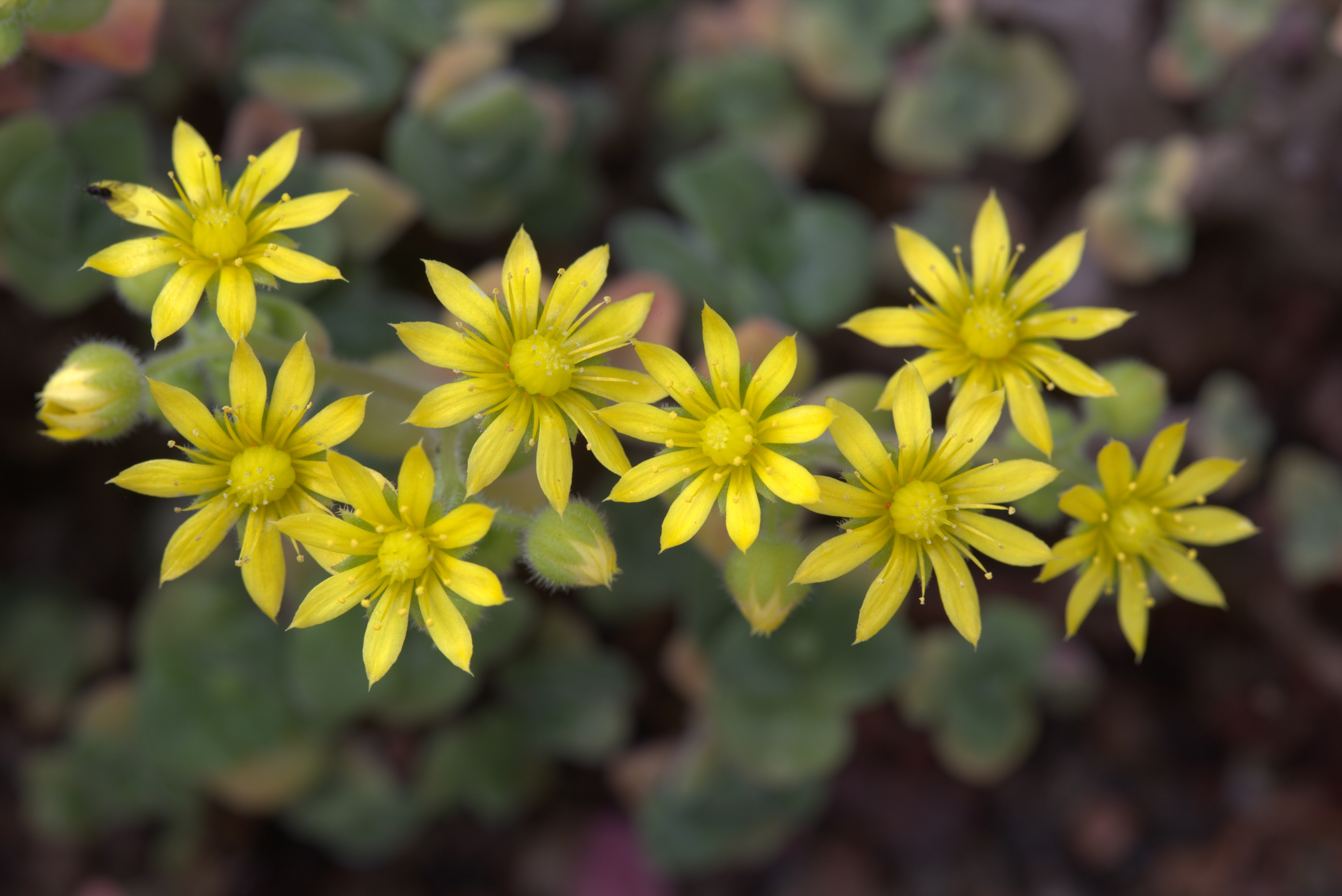 Aeonium lindleyi in Gothenburg Botanical Garden 2015. Plant id: 2012-1276 c G.